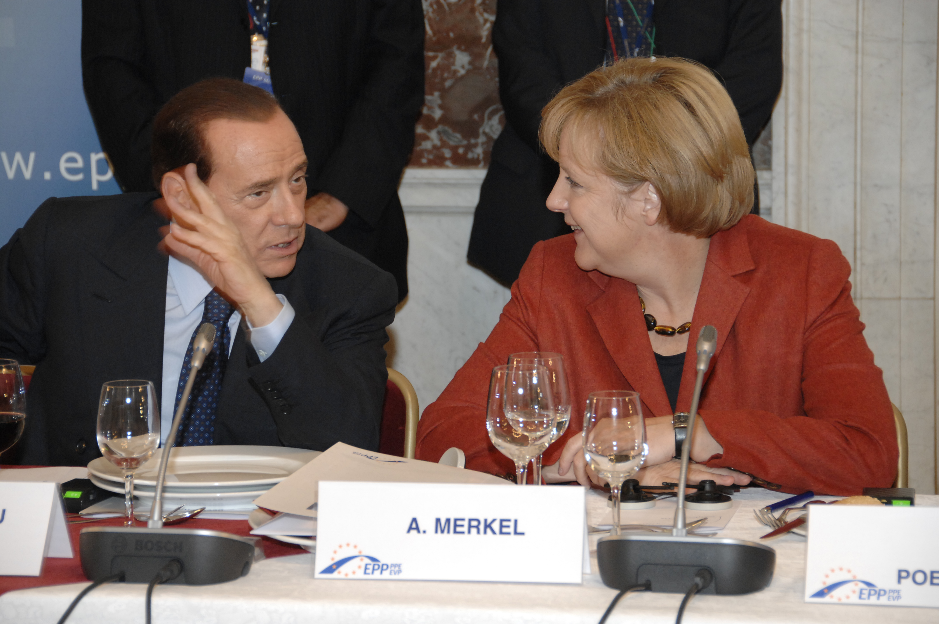 EPP Summit 15 October 2008